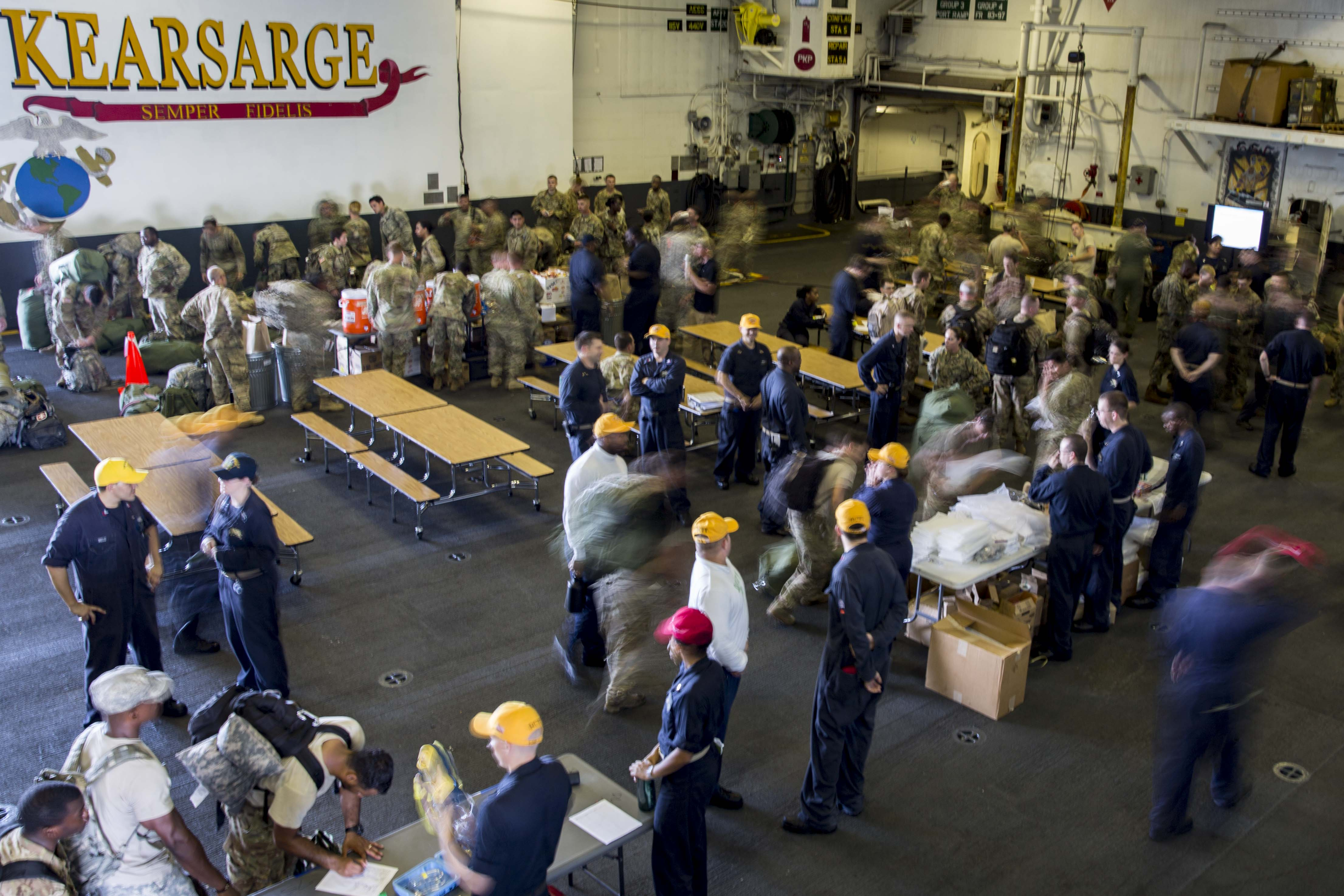 CARIBBEAN SEA (Sept. 17, 2017) Sailors assigned to the amphibious assault ship USS Kearsarge (LHD 3) process service members evacuated from St. Thomas, U.S. Virgin Islands, in anticipation of Hurricane Maria. Kearsarge is assisting with relief efforts in the aftermath of Hurricane Irma. The Department of Defense is supporting FEMA, the lead federal agency, in helping those affected by Hurricane Irma to minimize suffering and is one component of the overall whole-of-government response effort. (U.S. Navy photo by Mass Communication Specialist 3rd Class Ryre Arciaga/Released)170917-N-KW492-024 Join the conversation: navylive.dodlive.mil